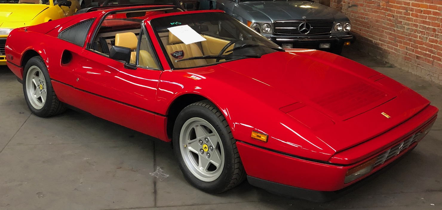 Ferrari 328 GTS